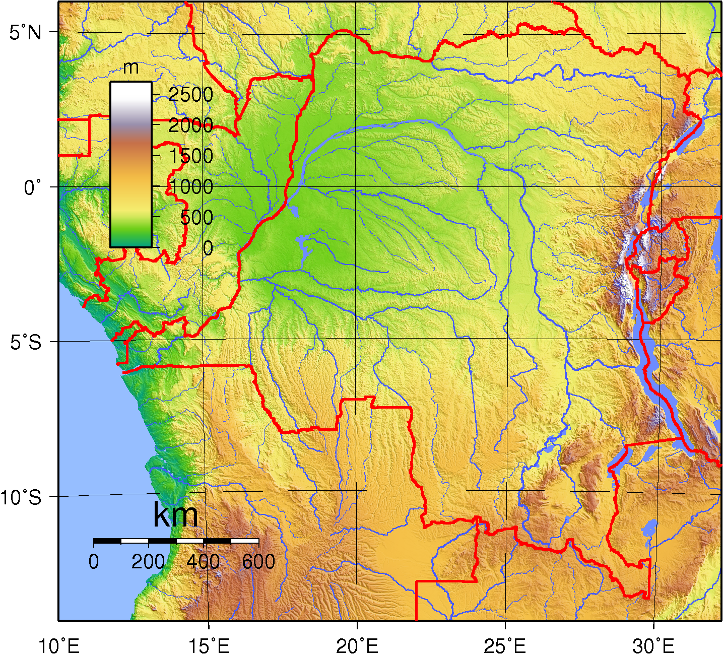 Topographic map of Congo (Kinshasa). Created with GMT from GLOBE data.